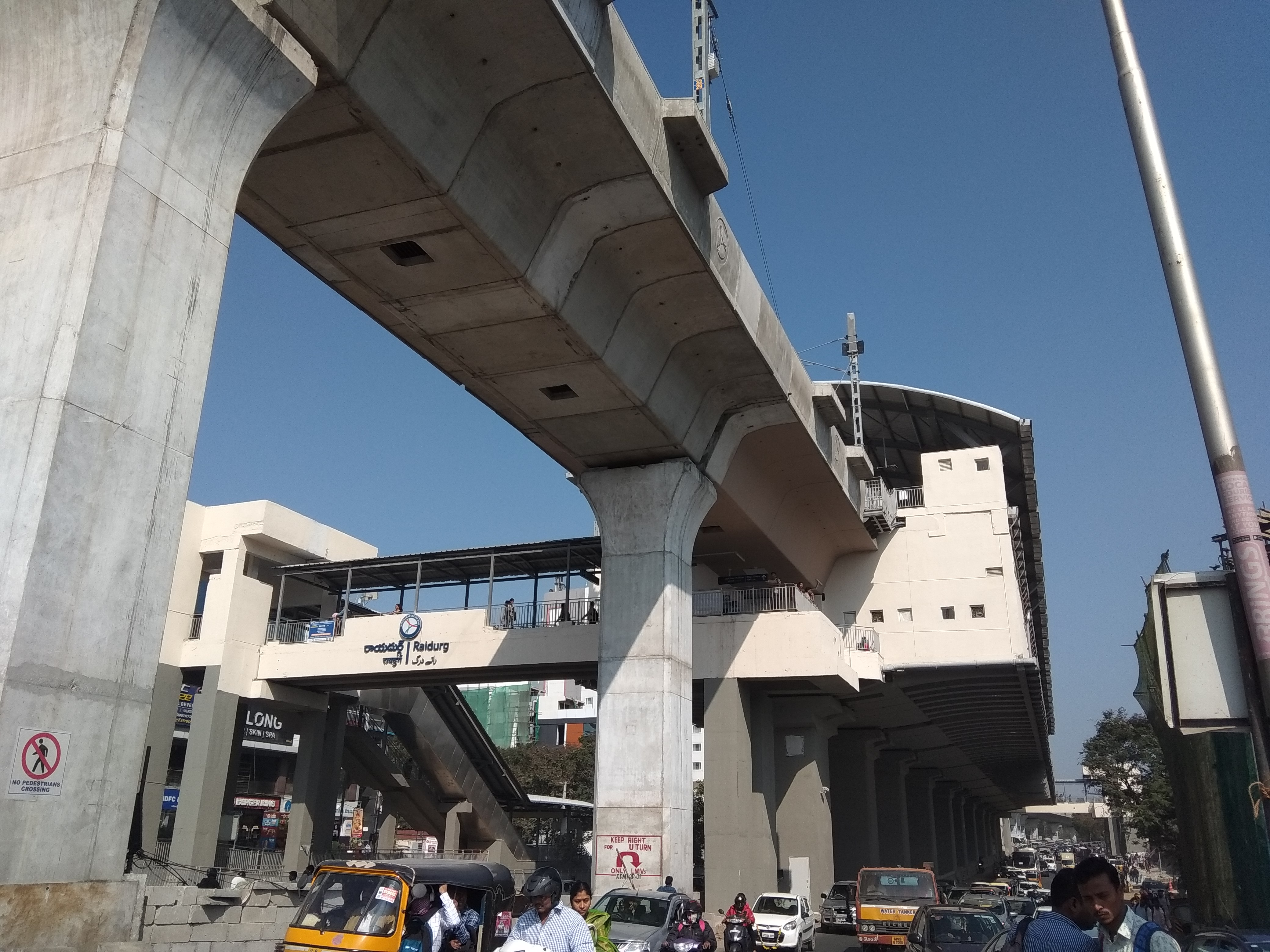 Raidurg metro station one